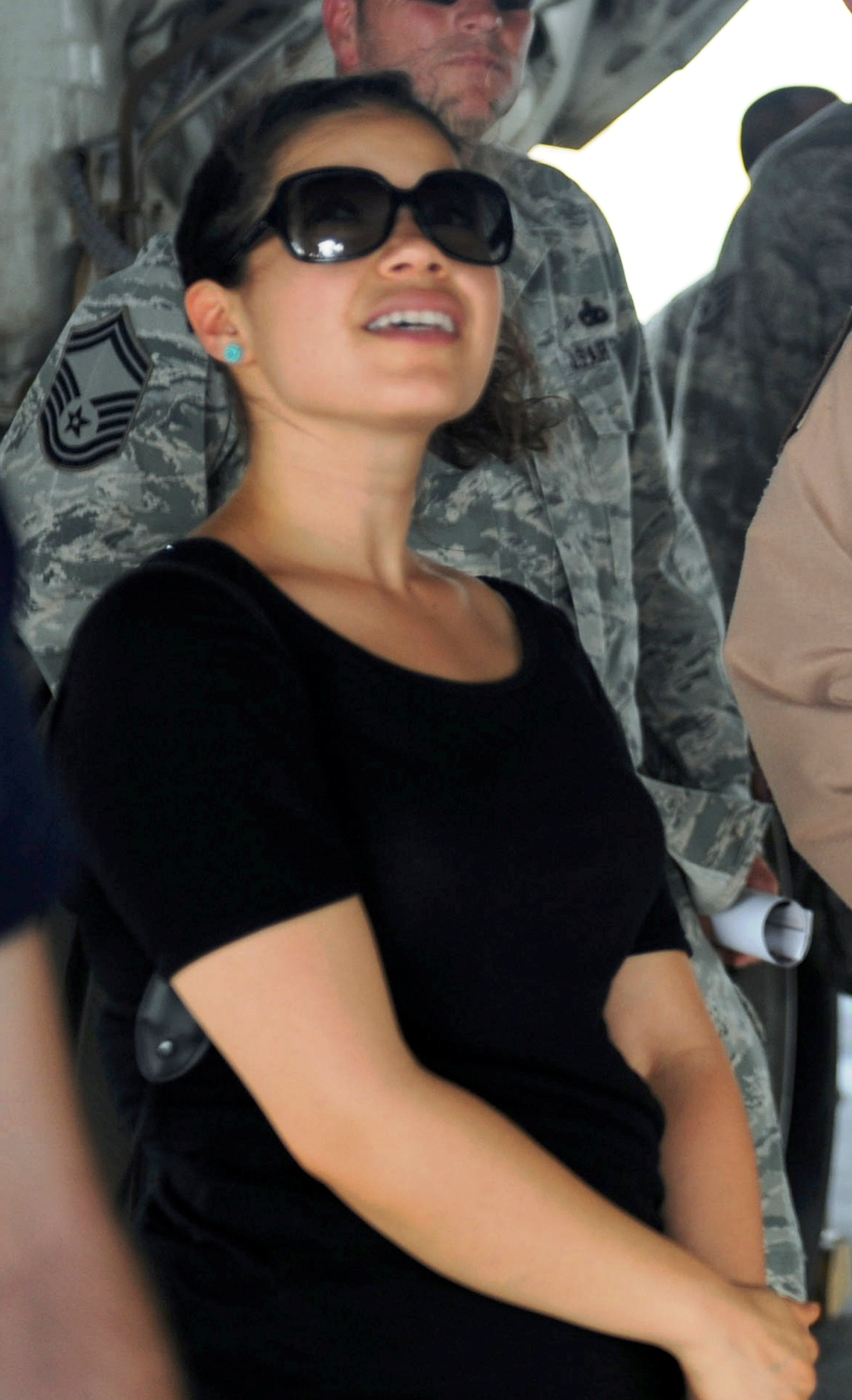 America Ferrera during a US-troops-visit in June 10th, 2010.